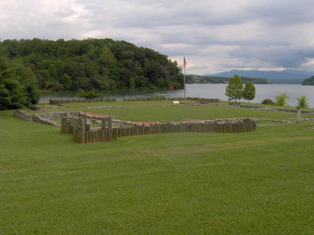 The Tellico Blockhouse site, with foundations and posts marking the original outline of the fort. The blockhouse was situated at the confluence of Nine Mile Creek (left) and the Little Tennessee River (right). The Unicoi Mountains rise in the distance. Image by Brian Stansberry.